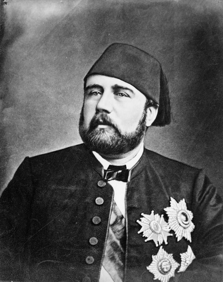 Portrait of Isma'il Pasha (1830–1895), Khedive of Egypt.